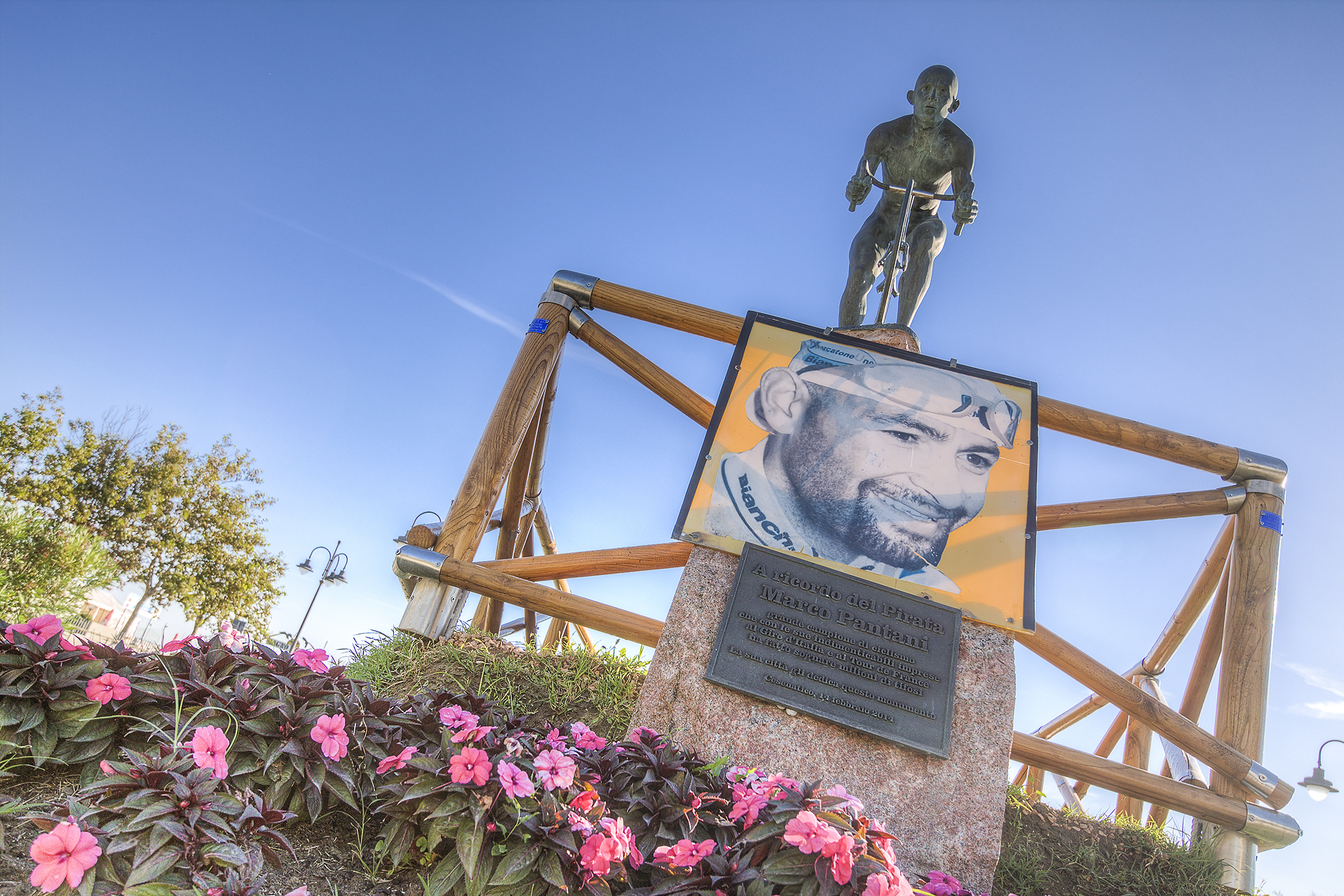 MONUMENTO a MARCO PANTANI - Cesenatico This is a photo of a monument which is part of cultural heritage of Italy.